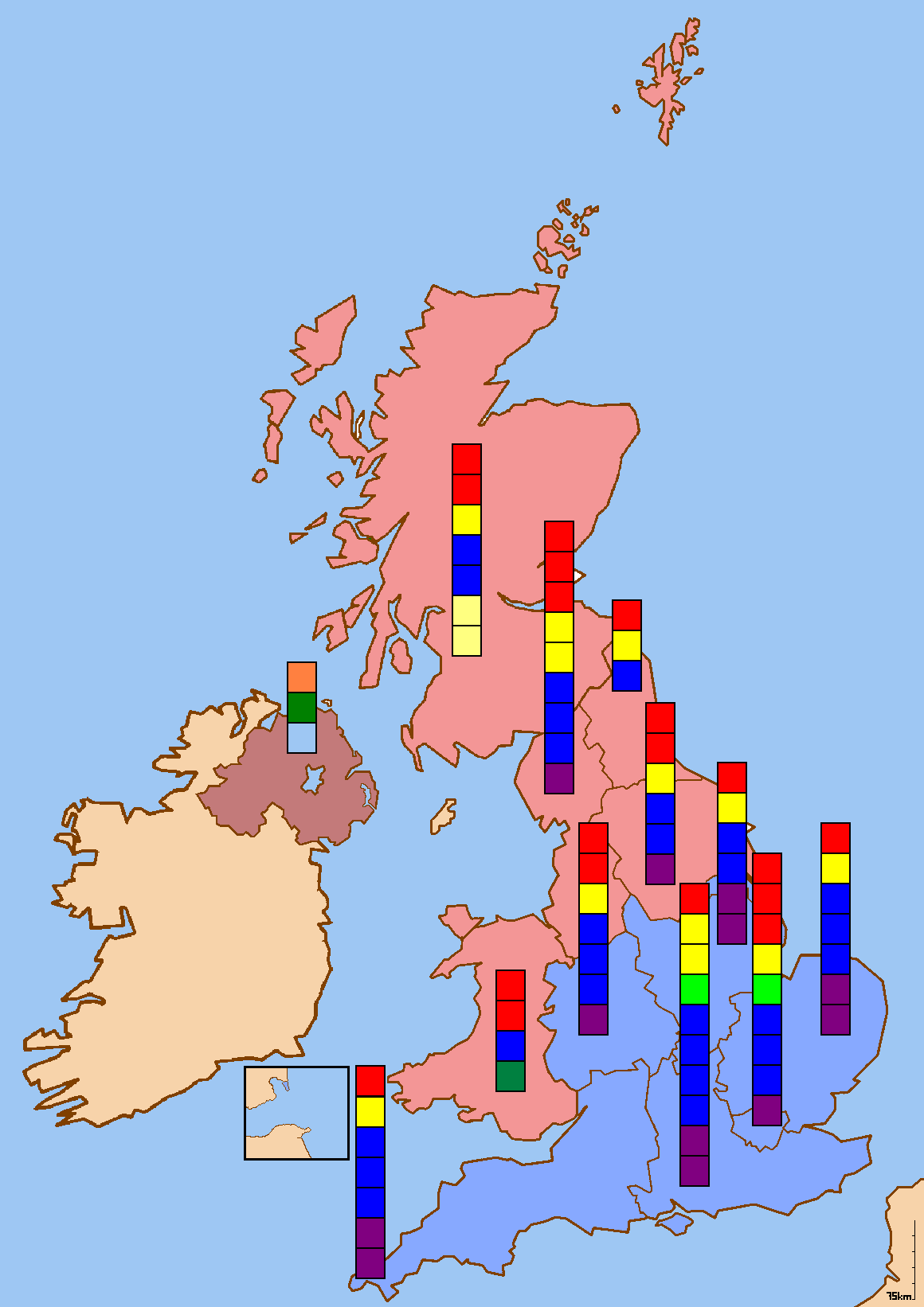 European Parliament election results 2004 - UK. Gibraltar is in the box in the bottom left.